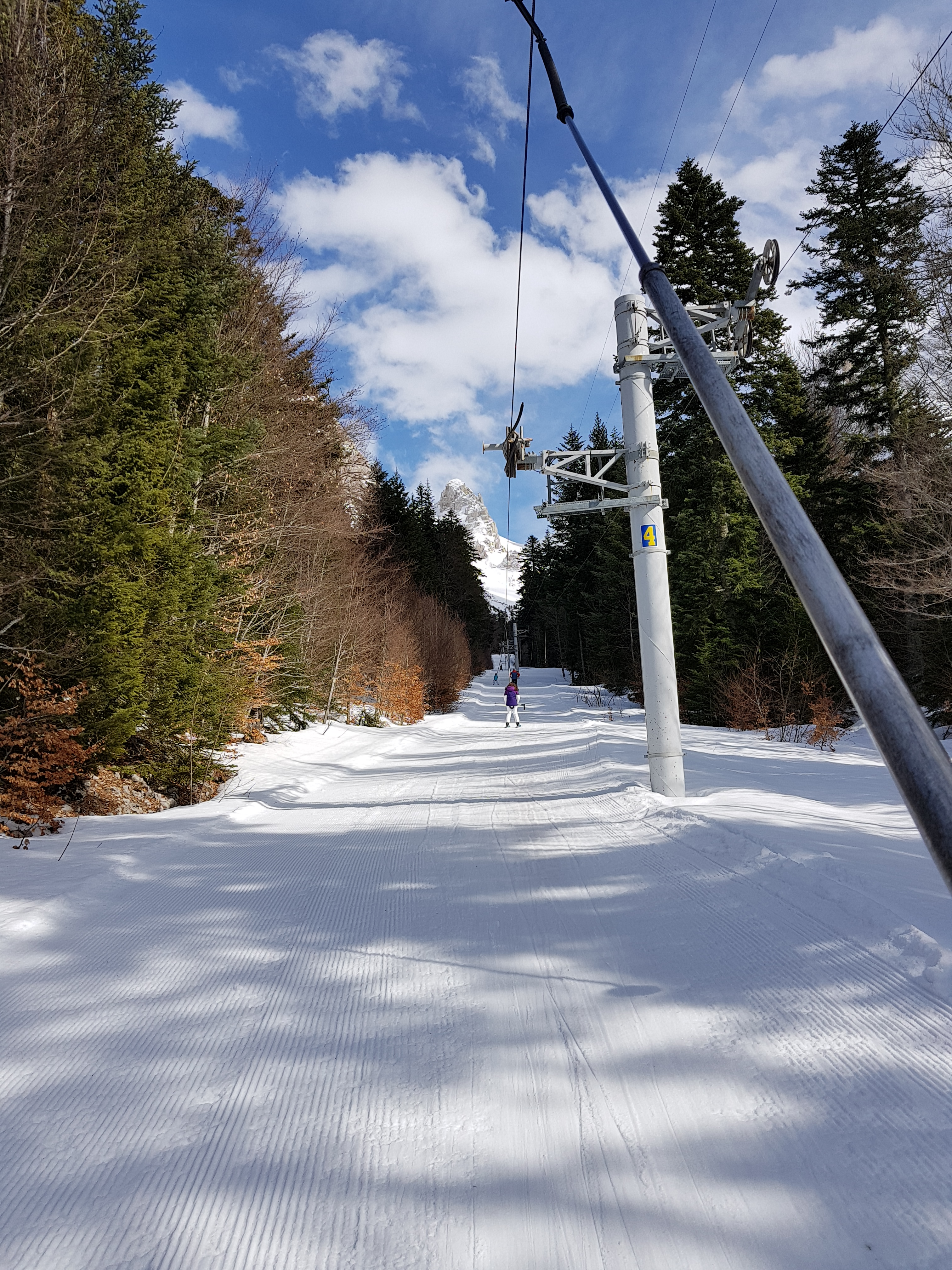 Les Aiguilles skilift